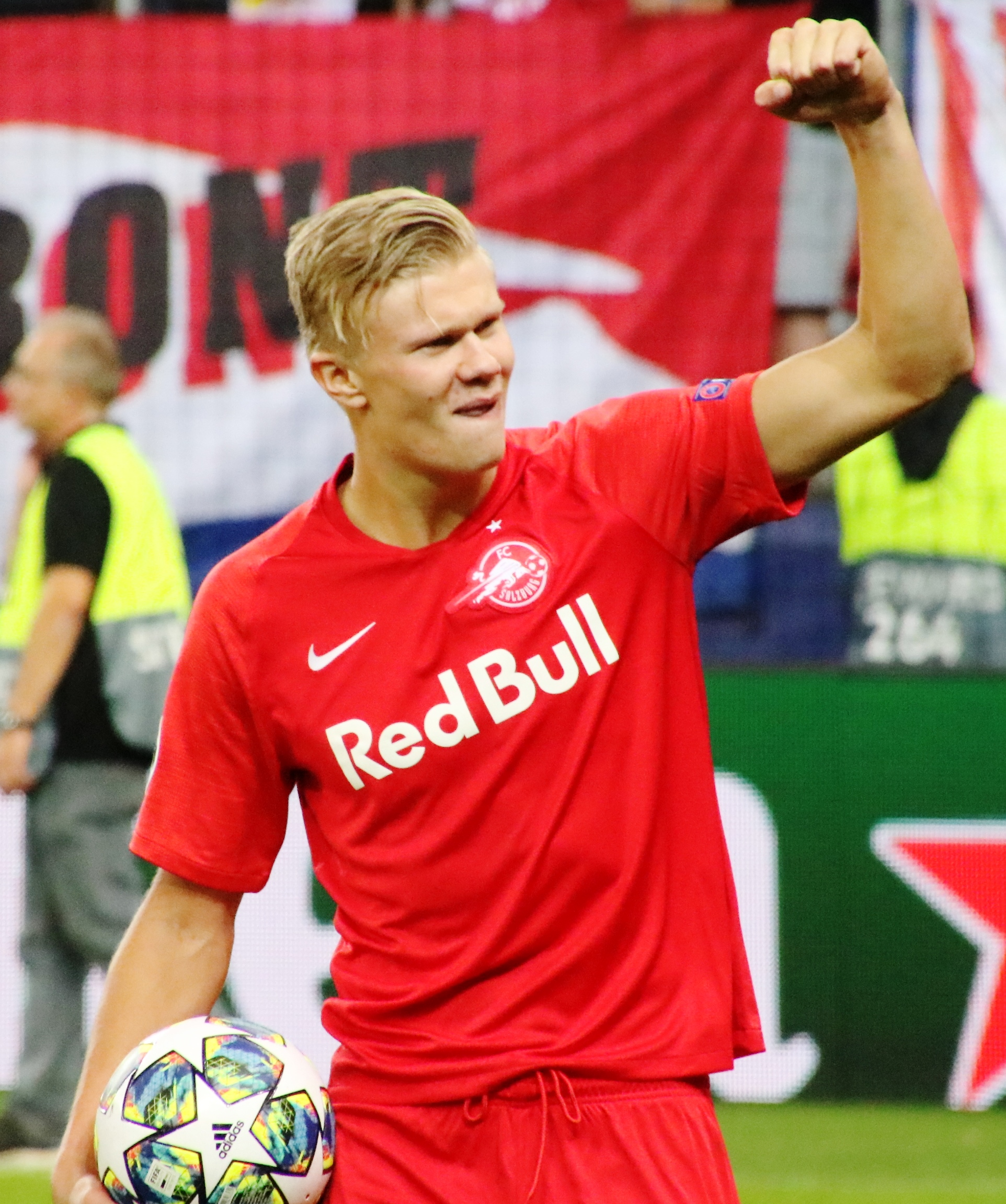 First FC Salzburg Championsleague match